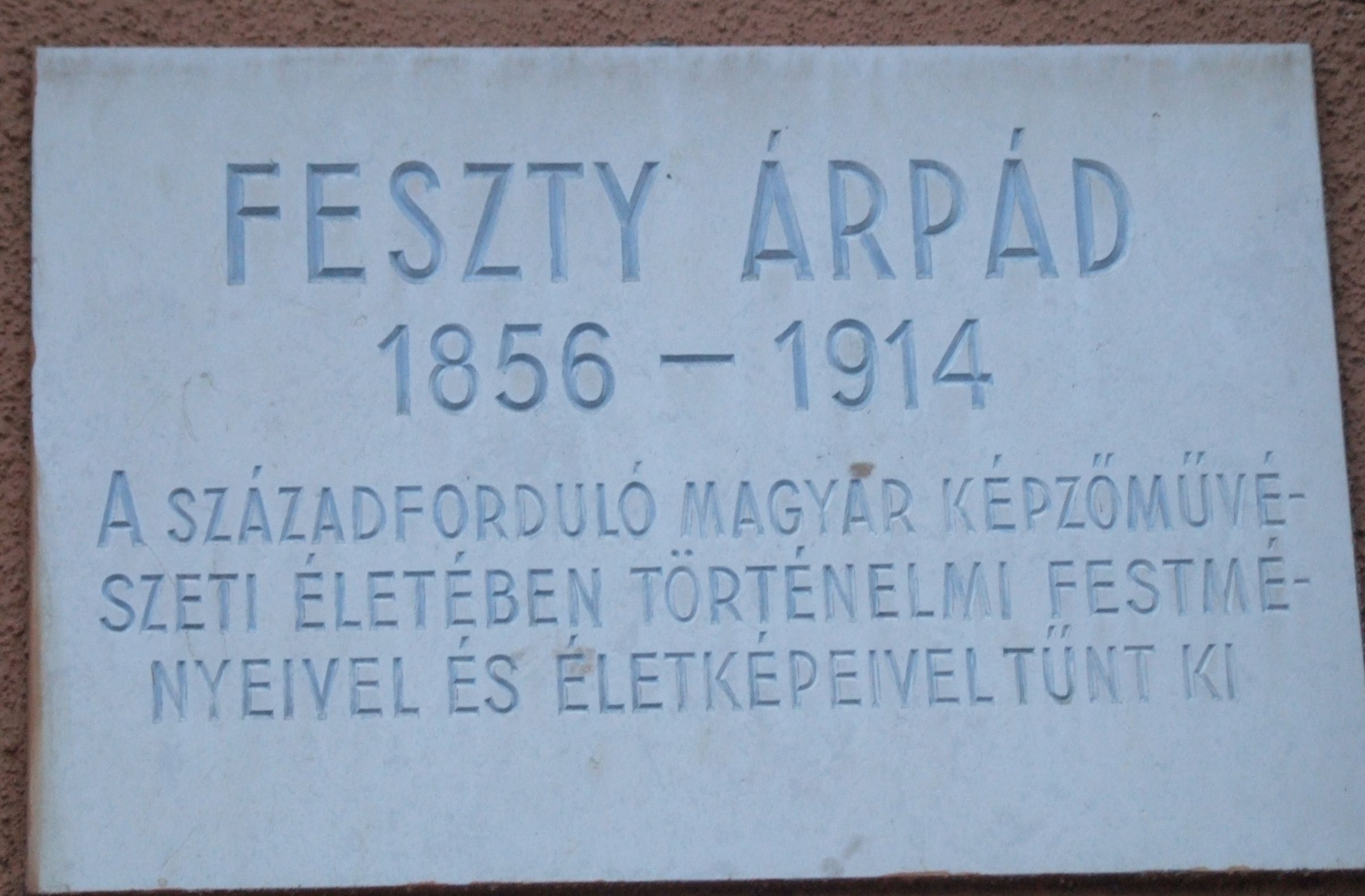 Árpád Feszty commemorative plaque in Budapest District I, Feszty Árpád Street No 2